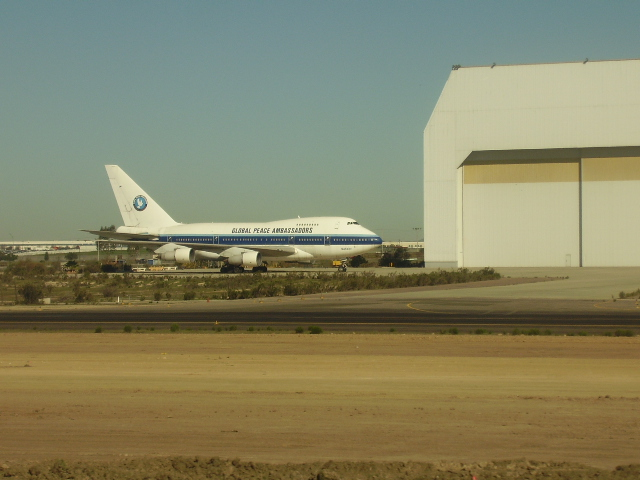 A Boeing 747 airliner at Tijuana International Airport